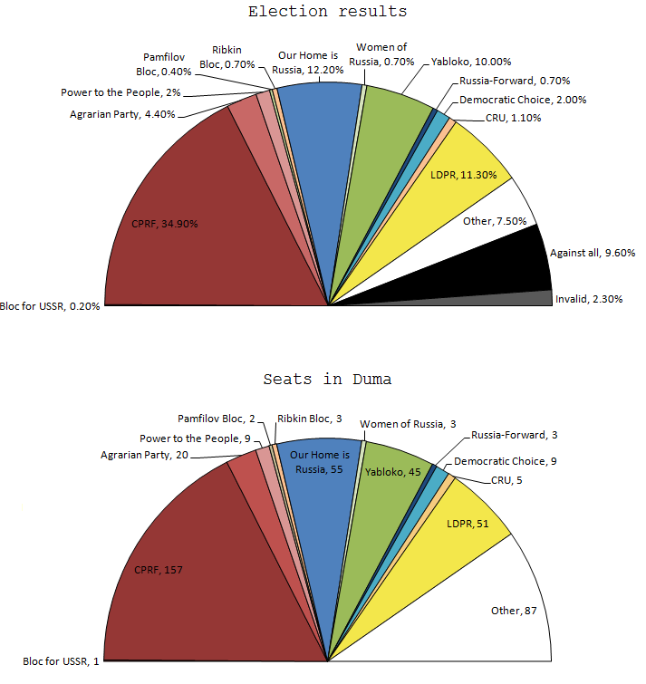 Russian Legislative Election 1995, party colors are arbitrary, party locations are arbitrary